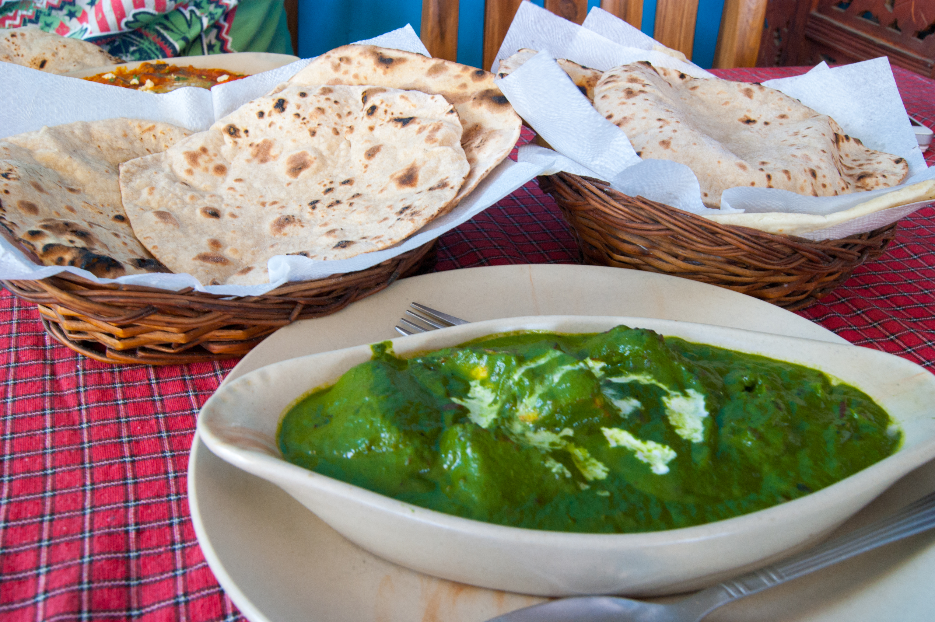 Rotis(Also known as Chapatis) sitting around Palak Paneer(Spinach cooked with Cottage cheese and Indian spices